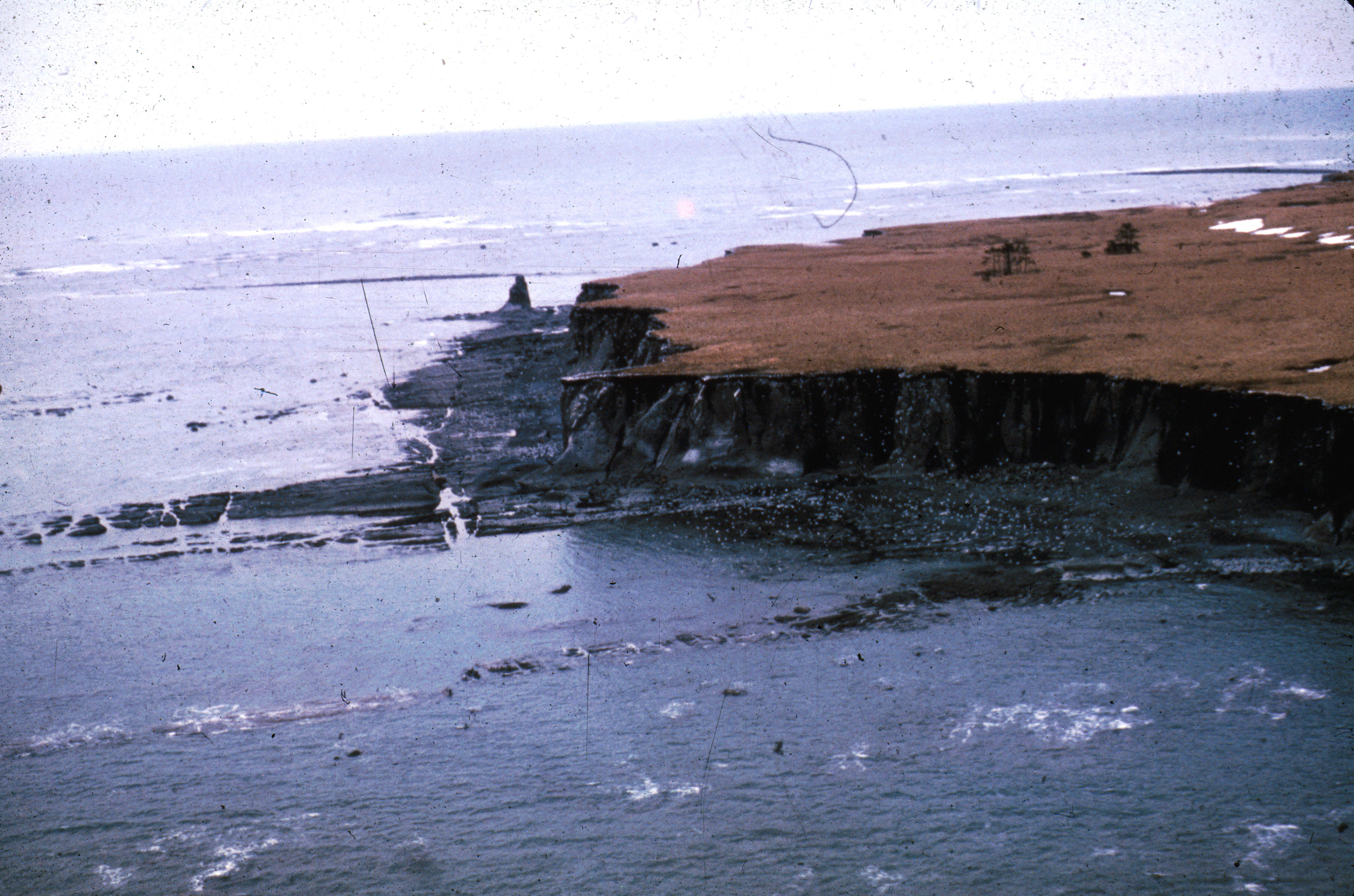 A marine terrace of Middleton Island, Alaska, 1964.